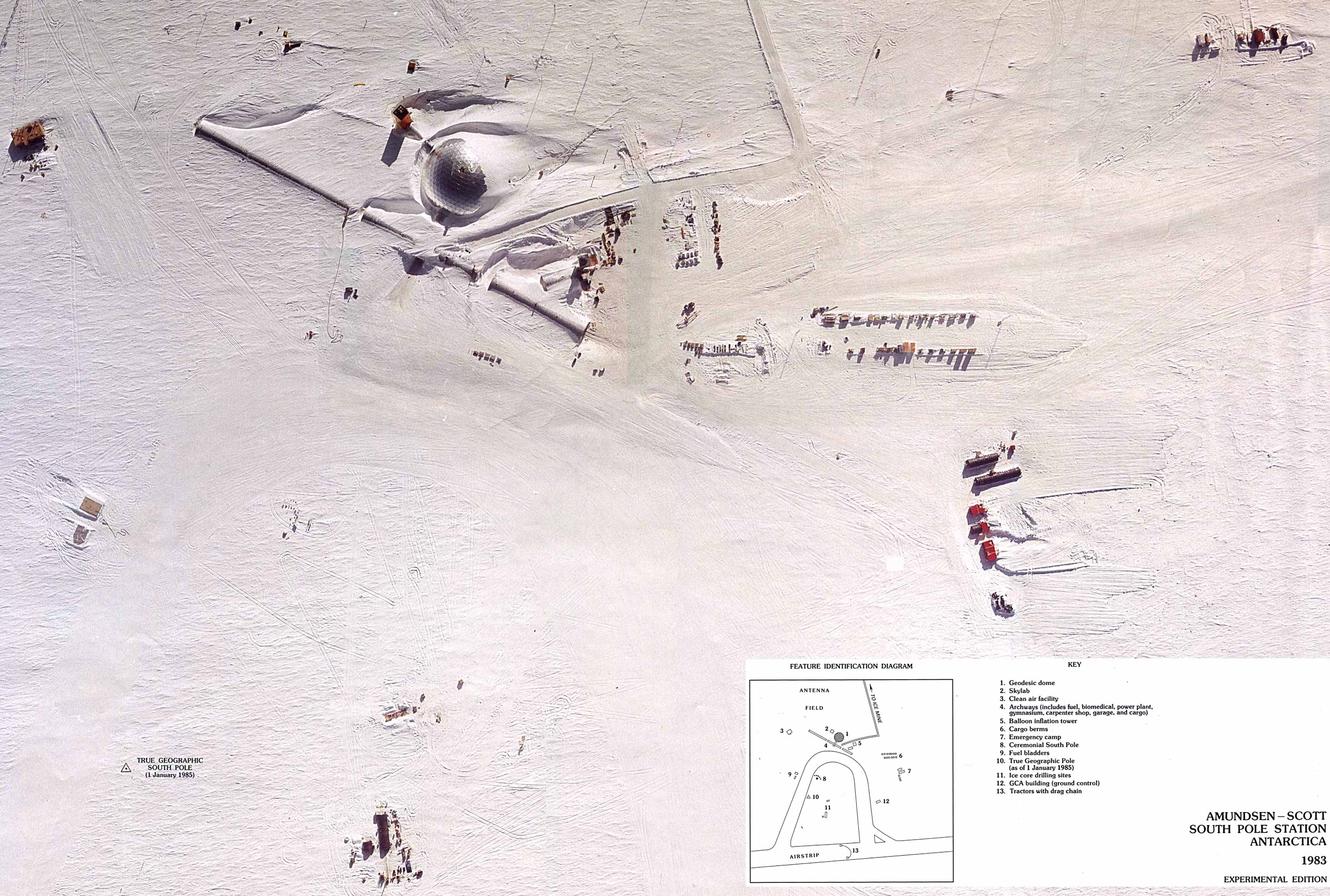 Aerial view of the Amundsen-Scott South Pole scientific research station